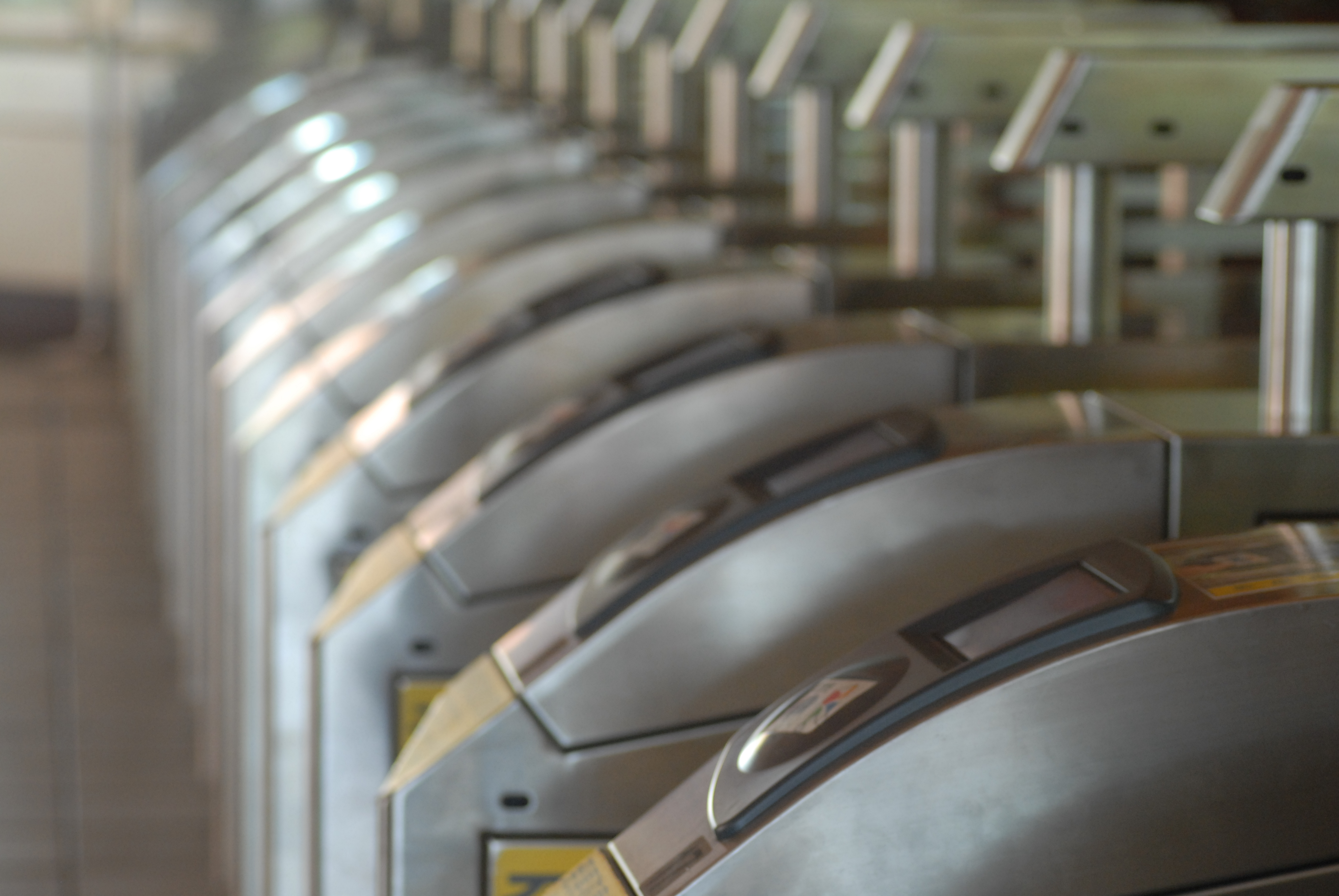 Card reader machines at the entry of Taipei Metro in Tamsui.